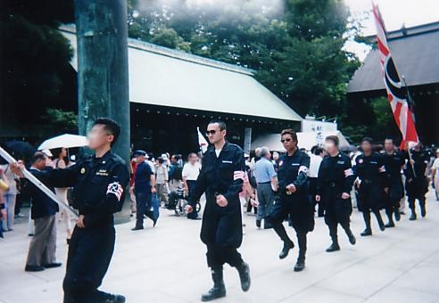 Minzoku no Ishi Domei(Will the National League, It is a Japanese ultra-right organization.) activists